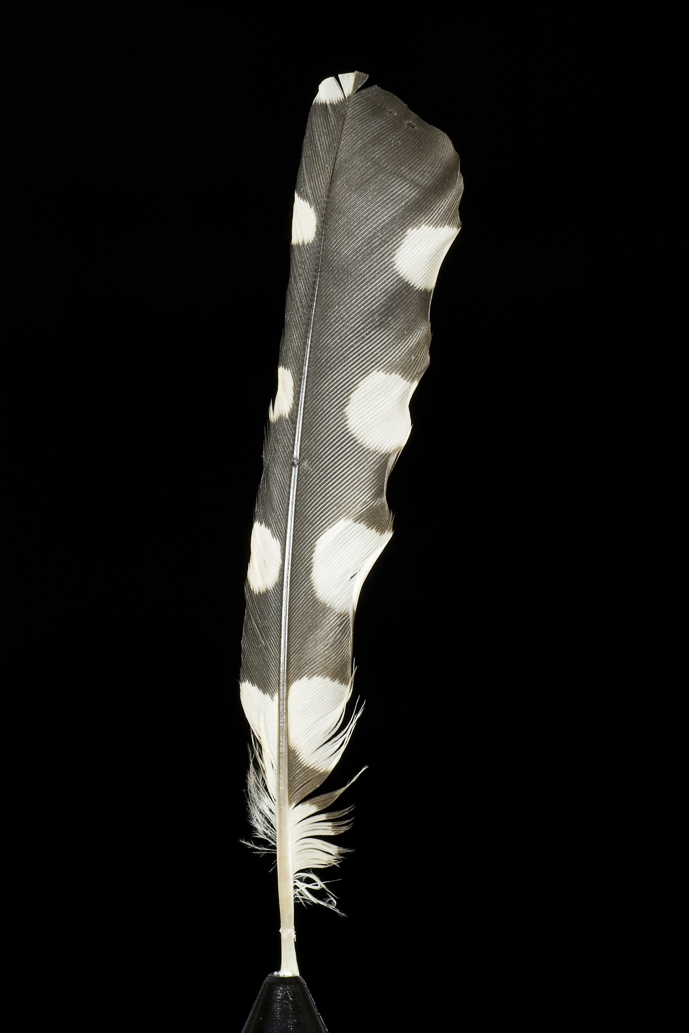 Feather of Dendrocopos major (Great Spotted Woodpecker). Length about 9cm.